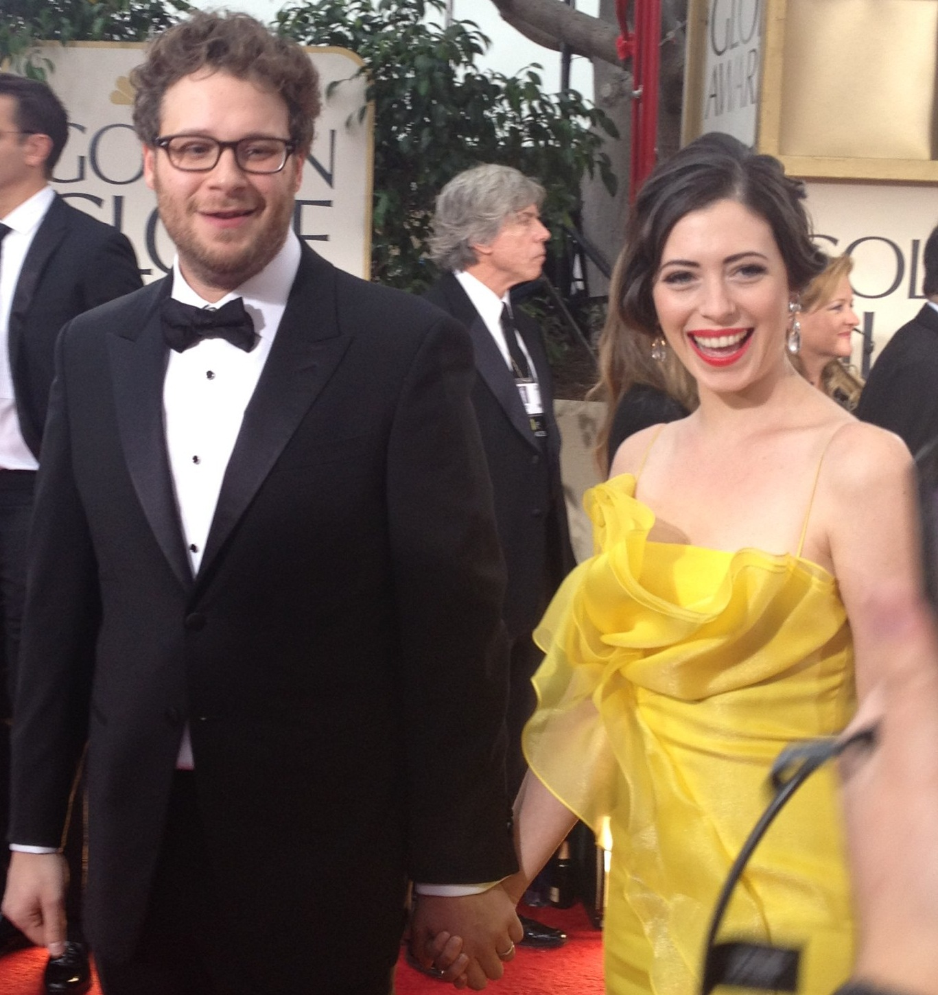 Actor Seth Rogan with his wife, actress Lauren Miller at the 69th Annual Golden Globes Awards